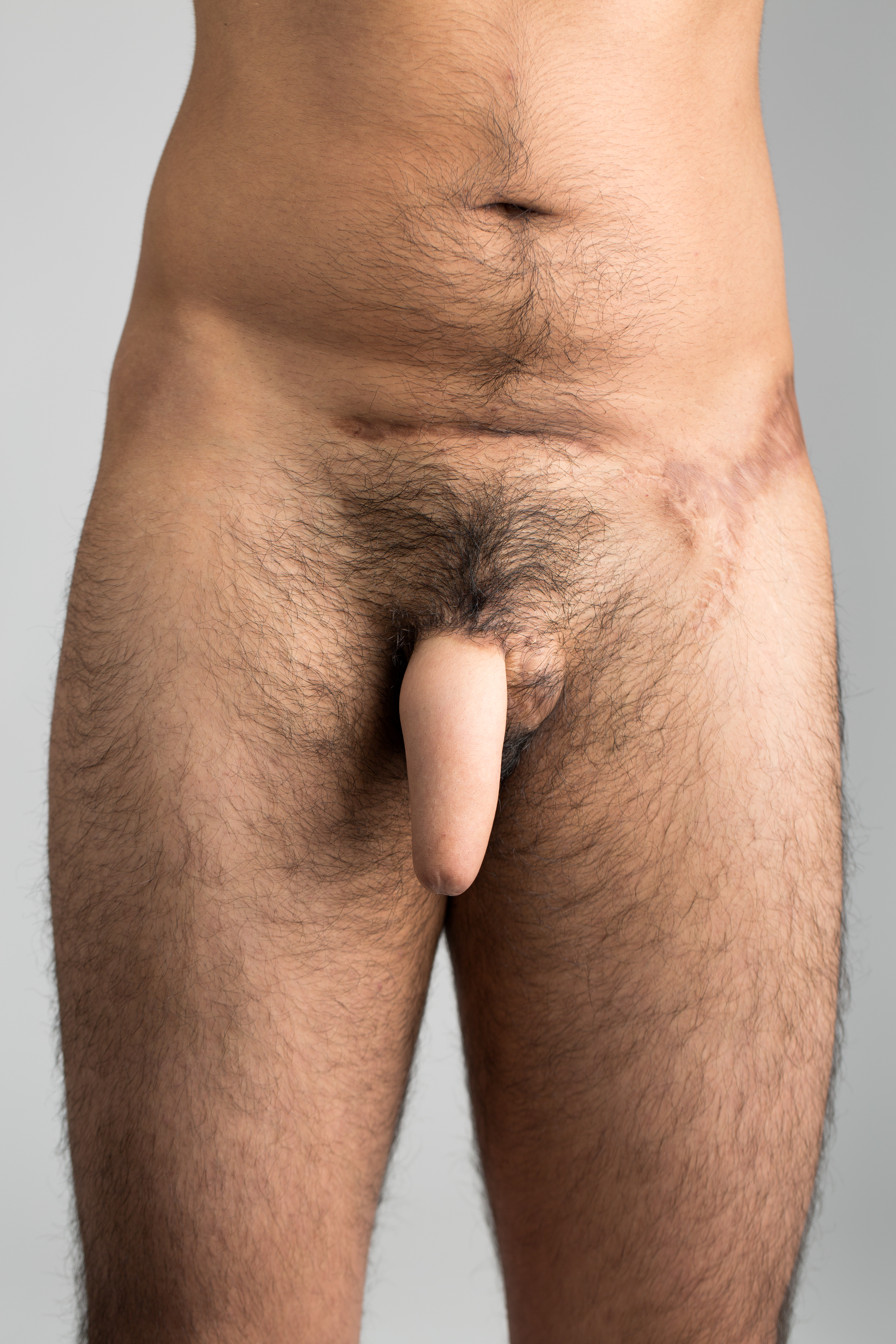 Surgically constructed male genitals (after phalloplasty, before glansplasty) on grey background